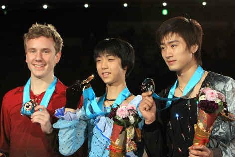 The men's podium at the 2009-20100 ISU Junior Grand Prix Final. From left: Song Nan (2nd), Yuzuru Hanyu (1st), Ross Miner (3rd).